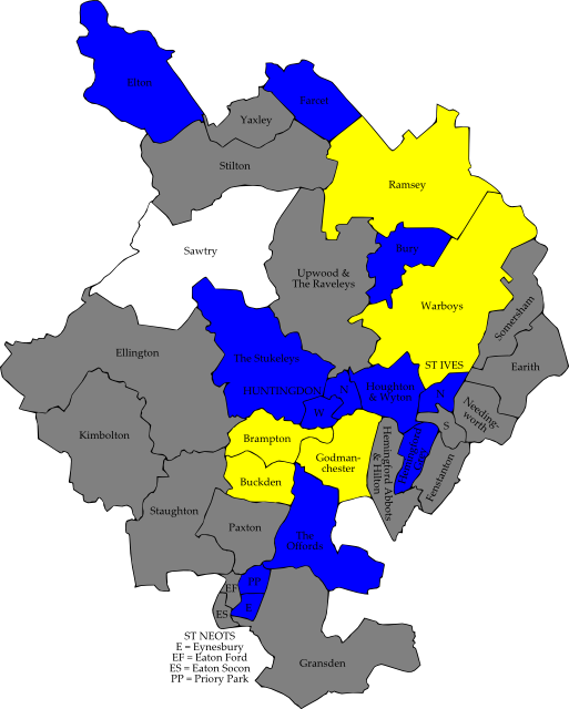 Map of Huntingdonshire, Cambridgeshire, UK showing the results of the 2002 local election. Colours: Conservative Liberal Democrat Independent Wards in grey were not contested in 2002.